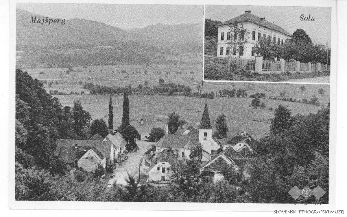 Postcard of Majšperk